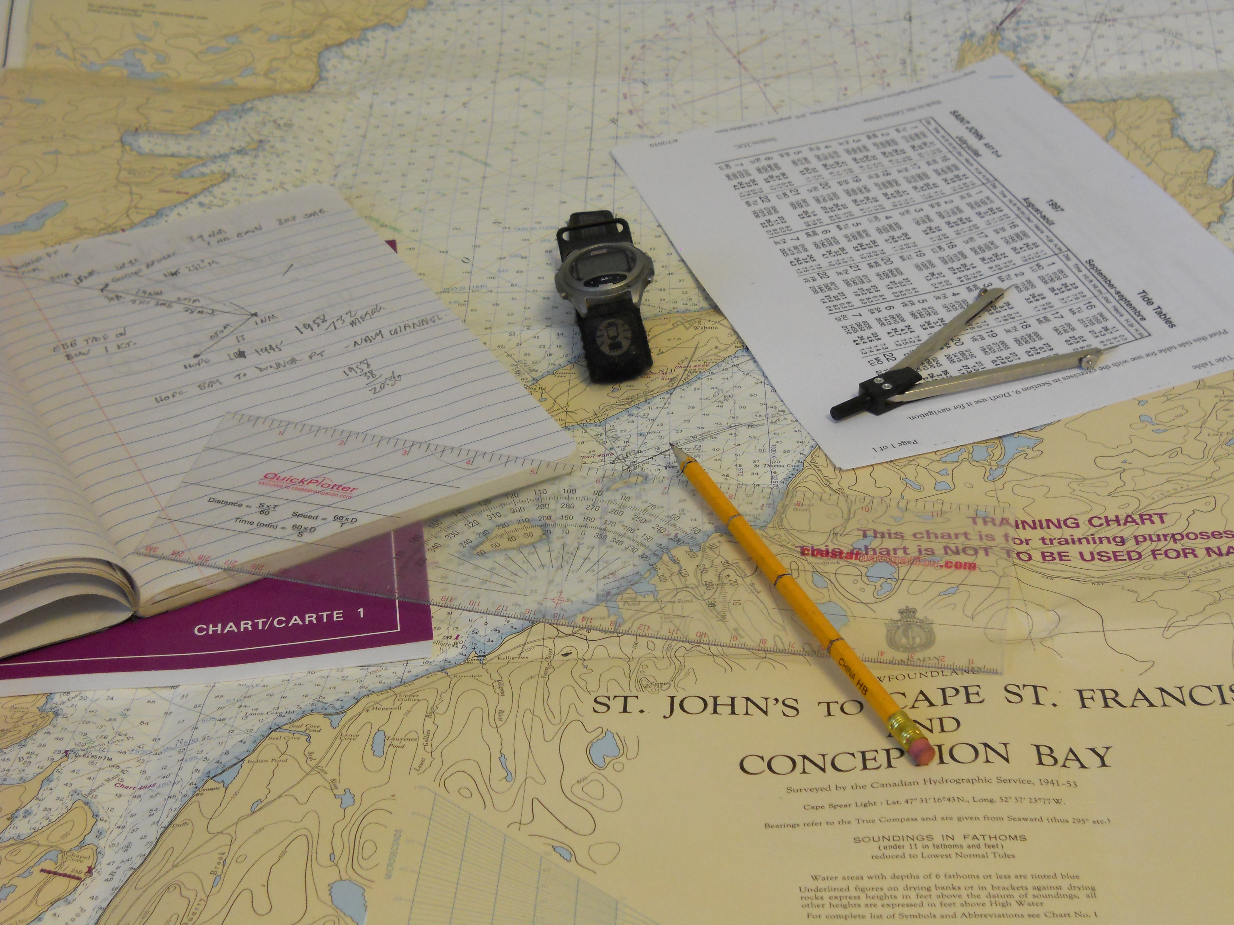 Basic Marine Navigation tools for Dead Reckoning from the Canadian Yachting Association Coastal Navigation course. The objects are photographed on top of a nautical training chart. The purple book is "Chart 1"; on top of Chart 1 is a navigator's notebook with a Dead Reckoning navigation plan at the top of the page. A dead reckoning navigator must be able to tell time, so he has a rugged watch. He needs a Tide Table in tidal waters so he can determine the effects of tidal currents on the vessel's progress. Dividers are used to meaure distance. A plotter is used to draw course lines, bearings, and fixes on the chart. The navigator's pencil is marked off in 10 nautical mile intervals, to make estimating and double-checking easy.